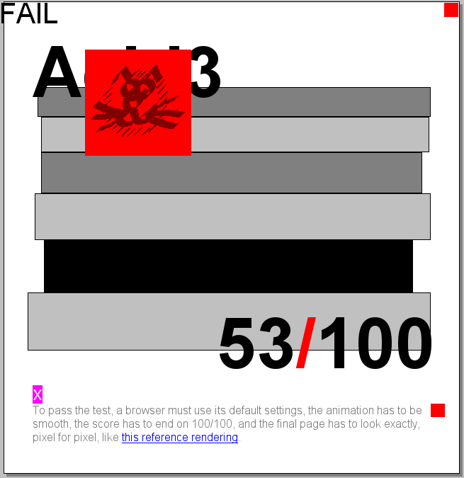 Firefox version 2.0.0.13 Acid3 Test results 53.The test fails with a result less than 100. The screenshot shows the 53/100 score on top of a broken layout, with all boxes stacked vertically top-to-bottom, colored gray, and with a superimposed red box showing what resembles a Cheshire Cat.